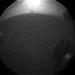 After successfully landing on Mars on August 5, 2012, the Curiosity rover took this picture, showing one of the rover wheels. The first image transmitted was a smaller thumbnail, with this larger version following